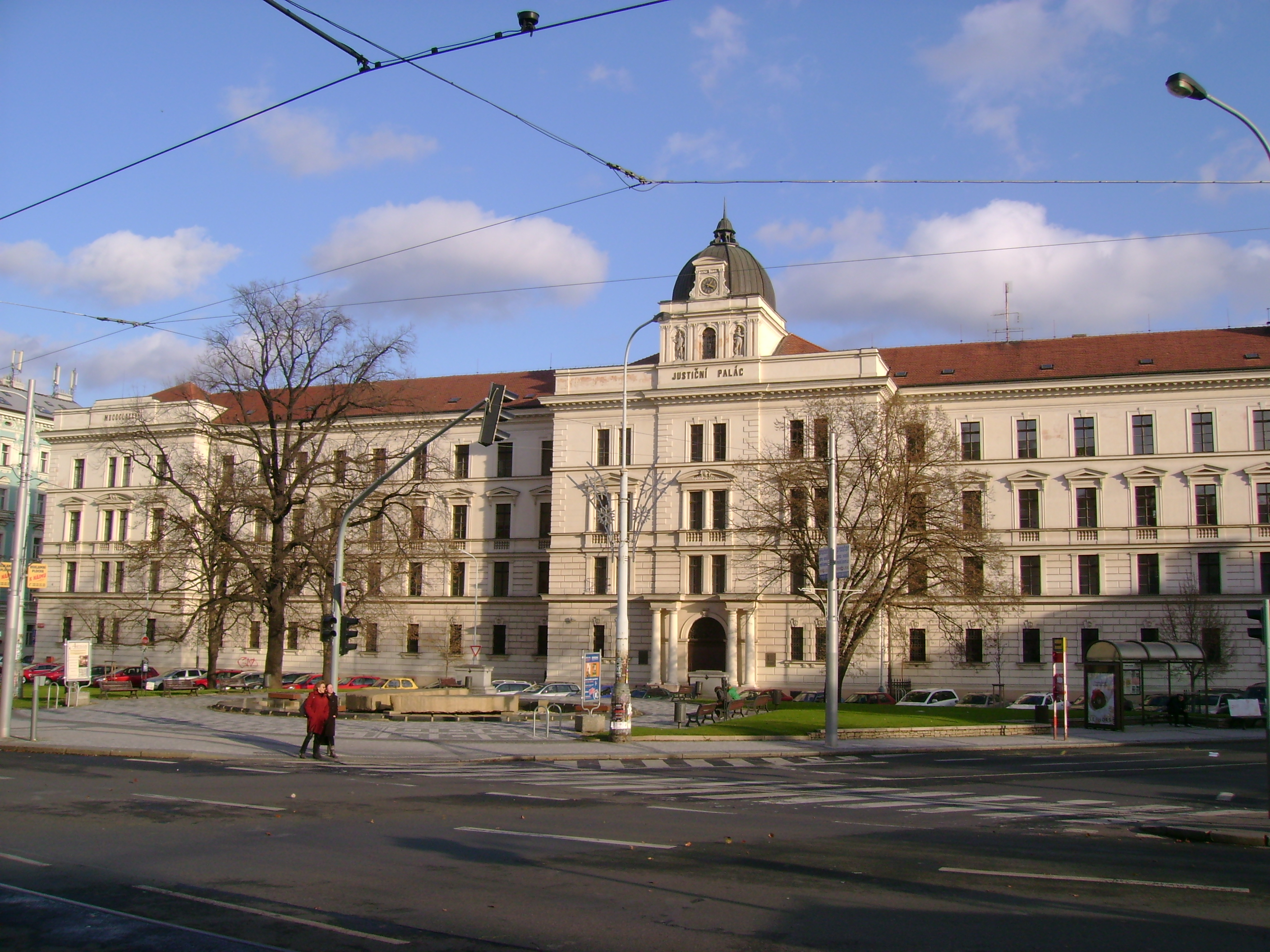 Justice Palace, Kinských Square 234/5, Prague-Smíchov, the Czech Republic.